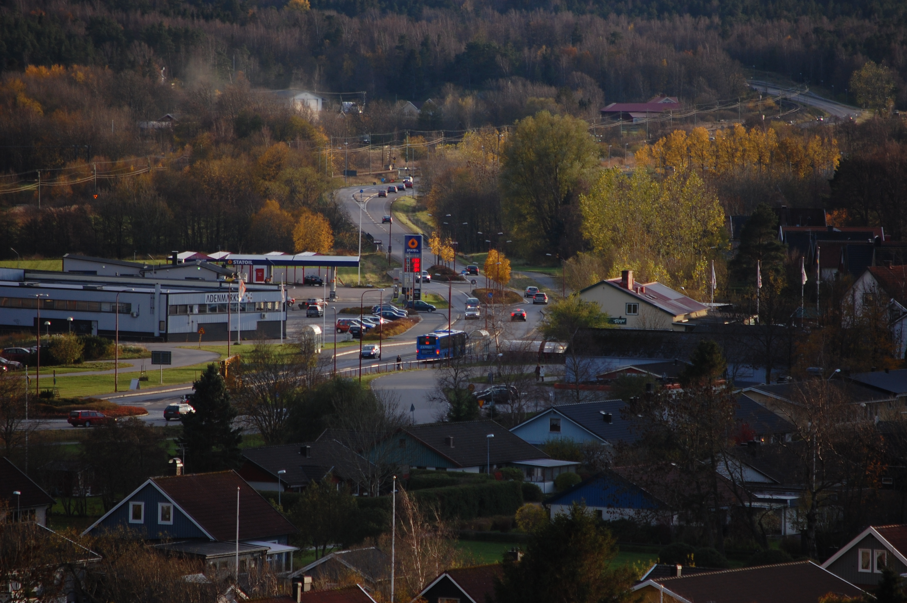 Overview of Stora Höga.